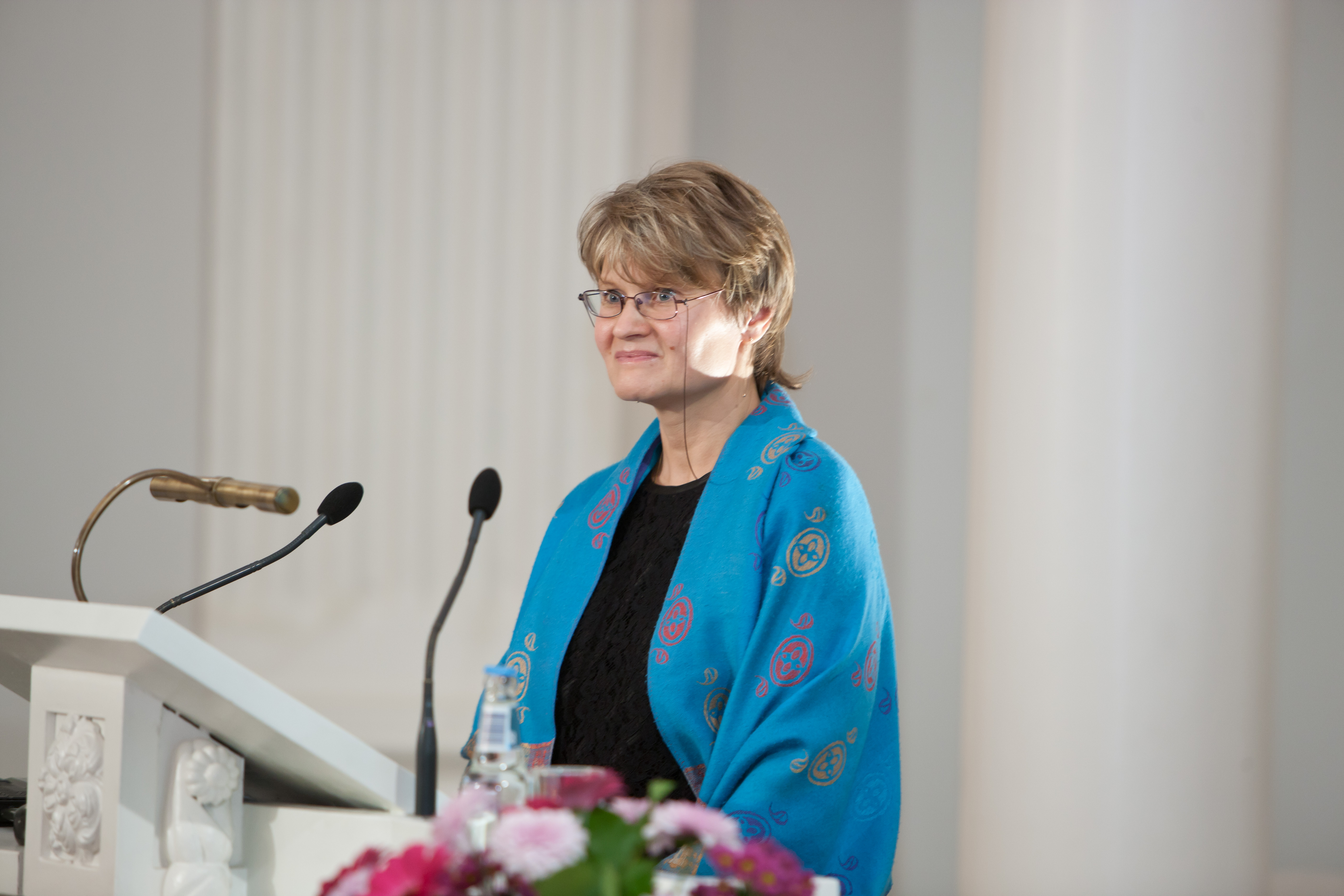 3. novembril 2011 pidas Tartu Ülikooli kommunikatsiooniuuringute professor Triin Vihalemm TÜ aulas inauguratsiooniloengu teemal "Venelased Eesti identiteediloomes. Võõrkeha või ressurss?".